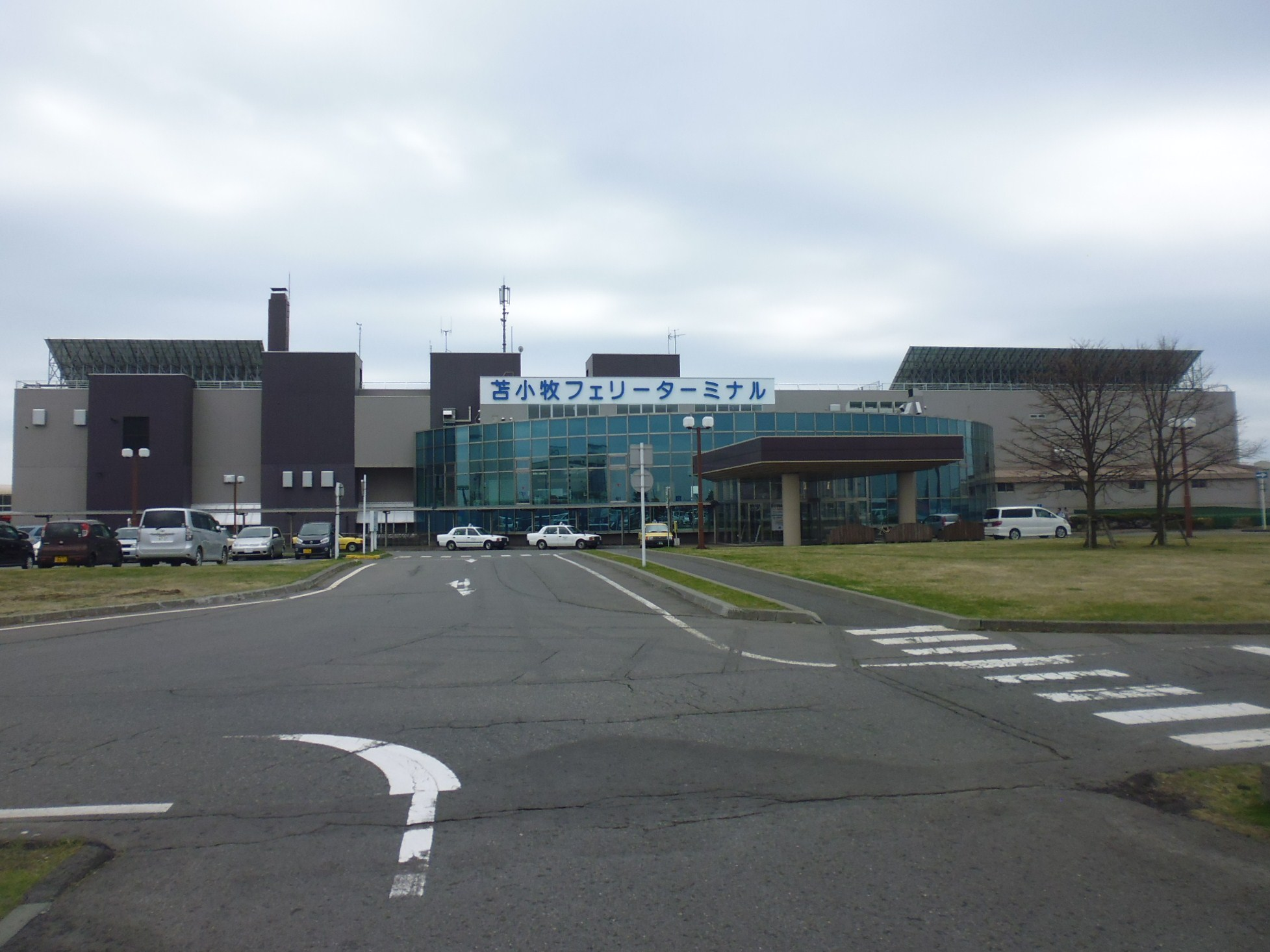 Tomakomai West port ferry terminal(2017.5.6)